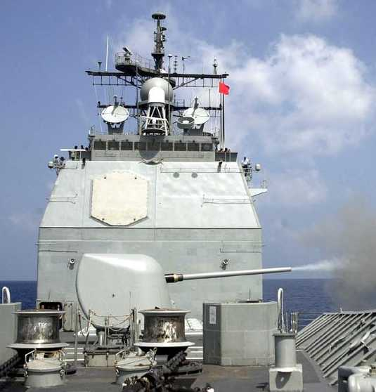 USS Cowpens (CG-63) firing a 5-inch/54 caliber gun